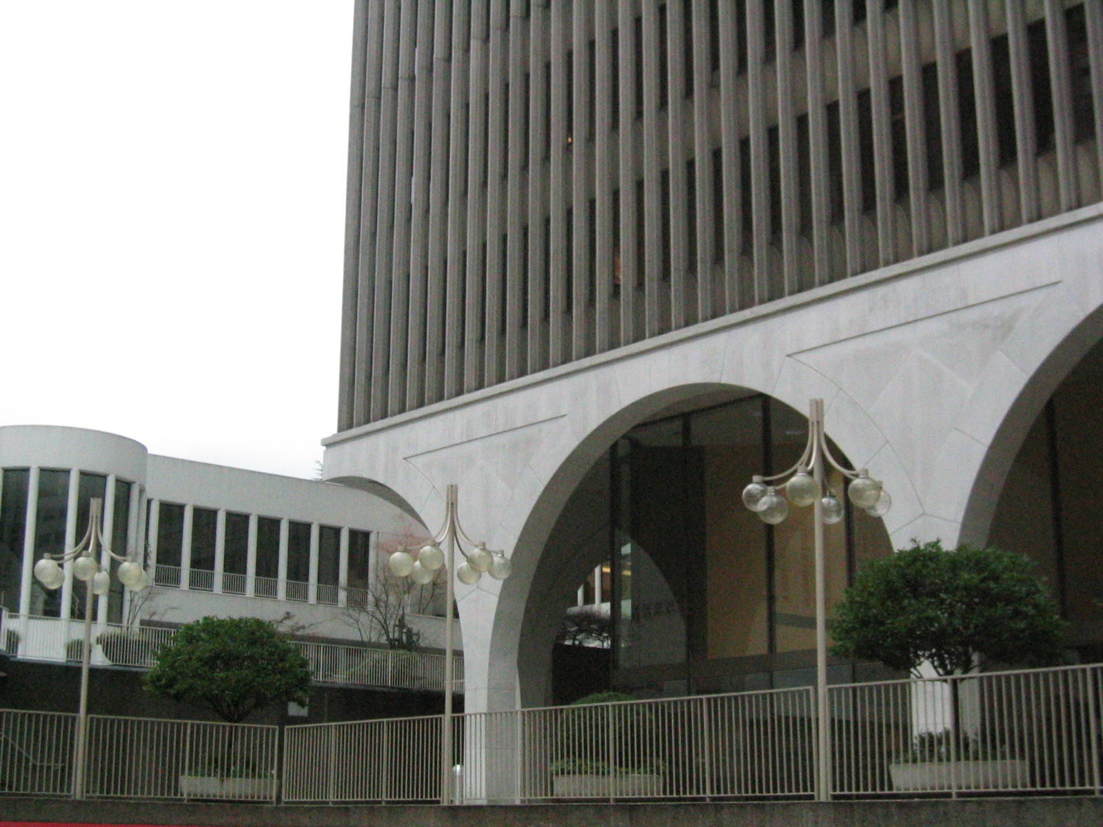 The IBM building in Seattle